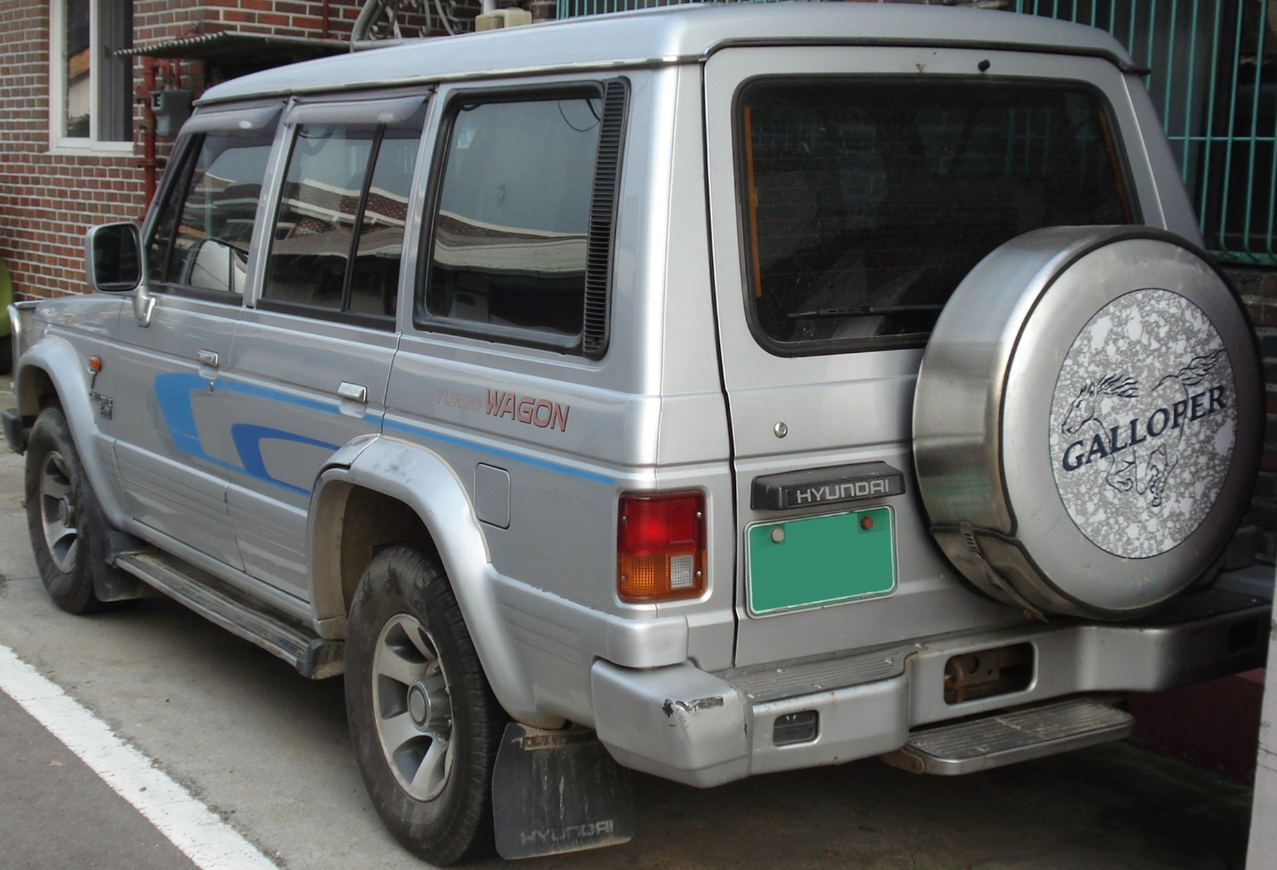 Hyundai Galloper